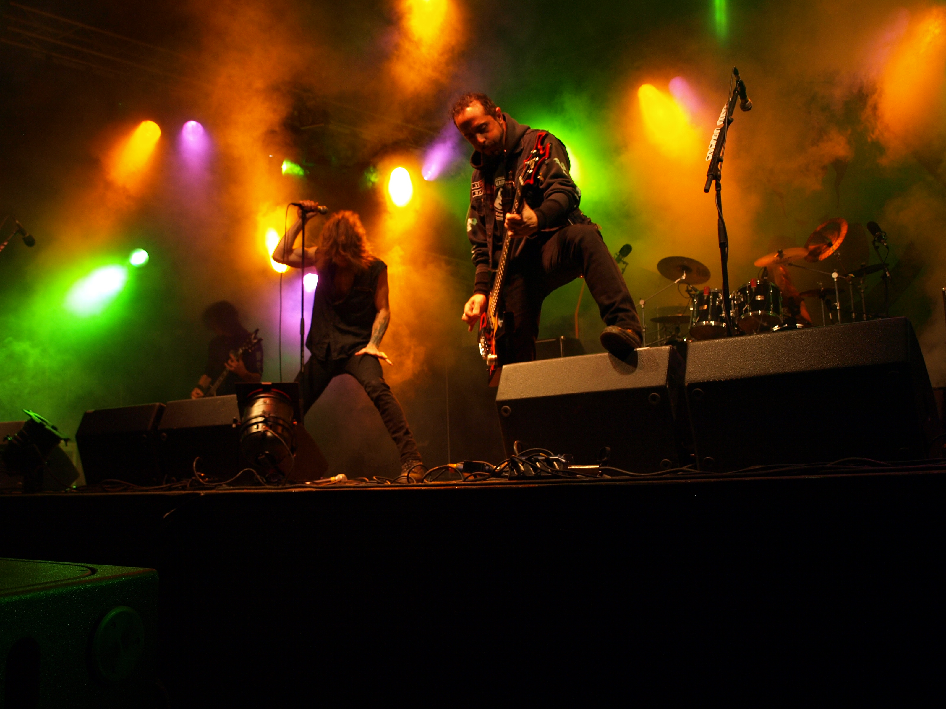 American thrash metal band Overkill live at Jalometalli 2008 in Oulu.